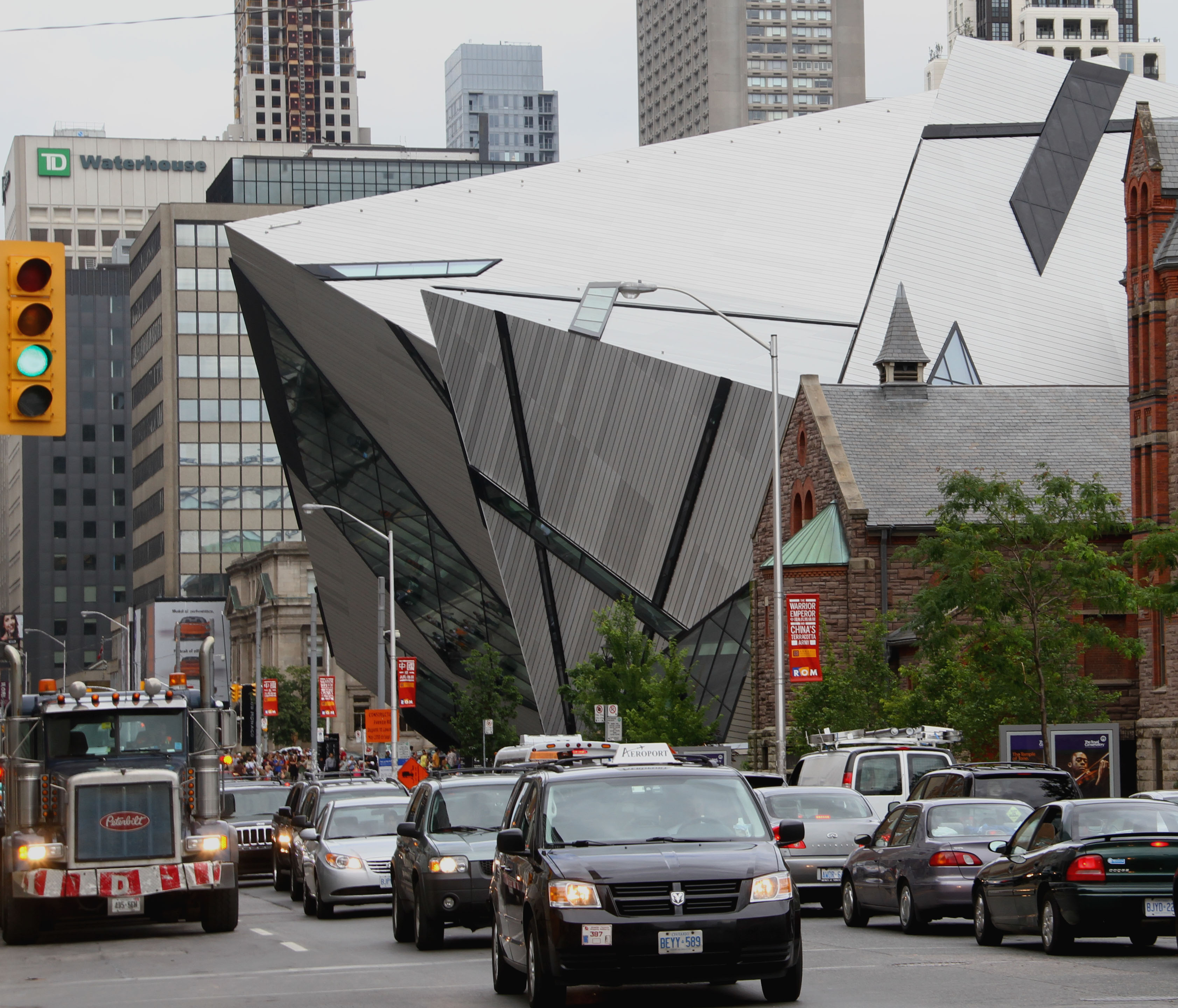 Toronto: Bloor / Yorkville District... The Royal Ontario Museum along Bloor St. West.